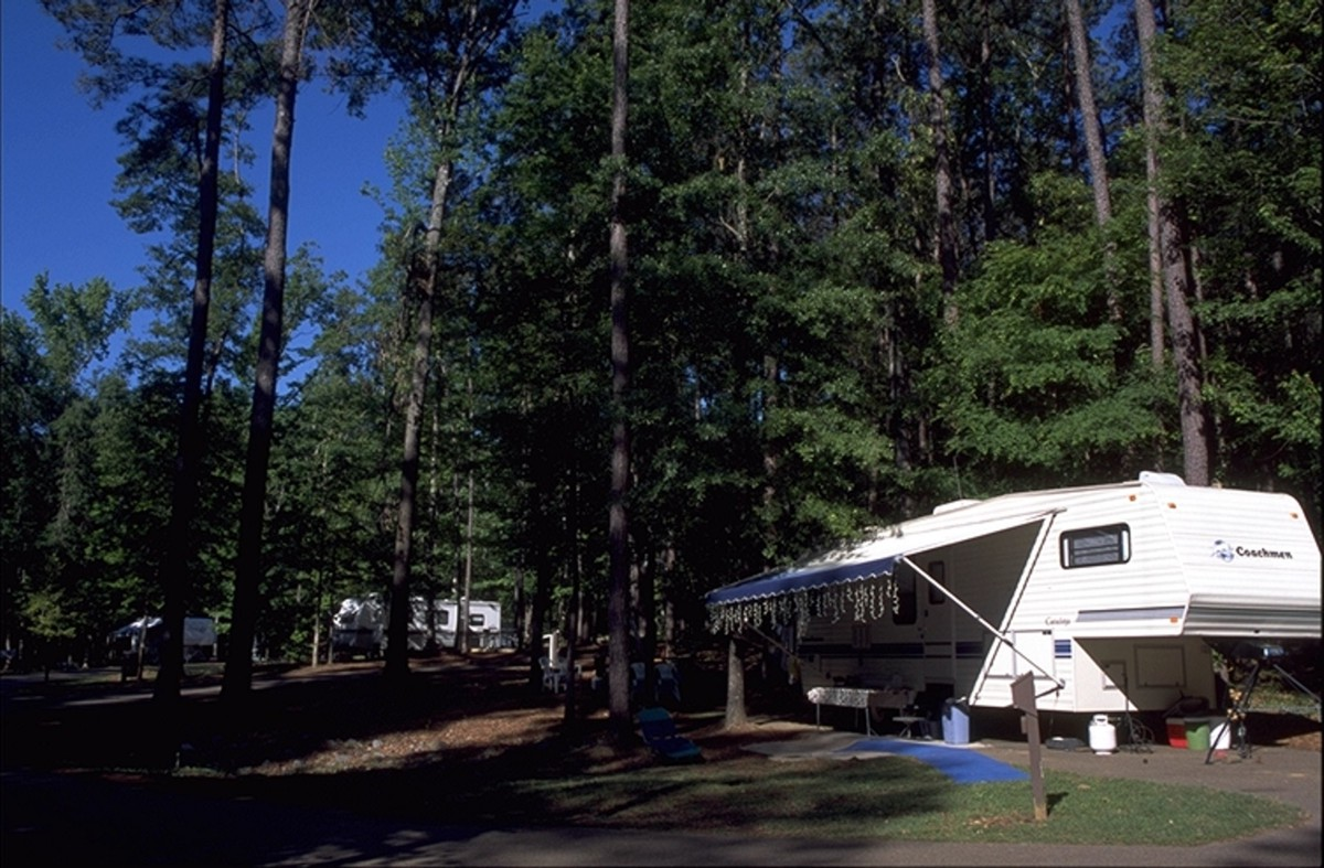 Motor home at Lake D'Arbonne State Park in Union Parish, Louisiana.